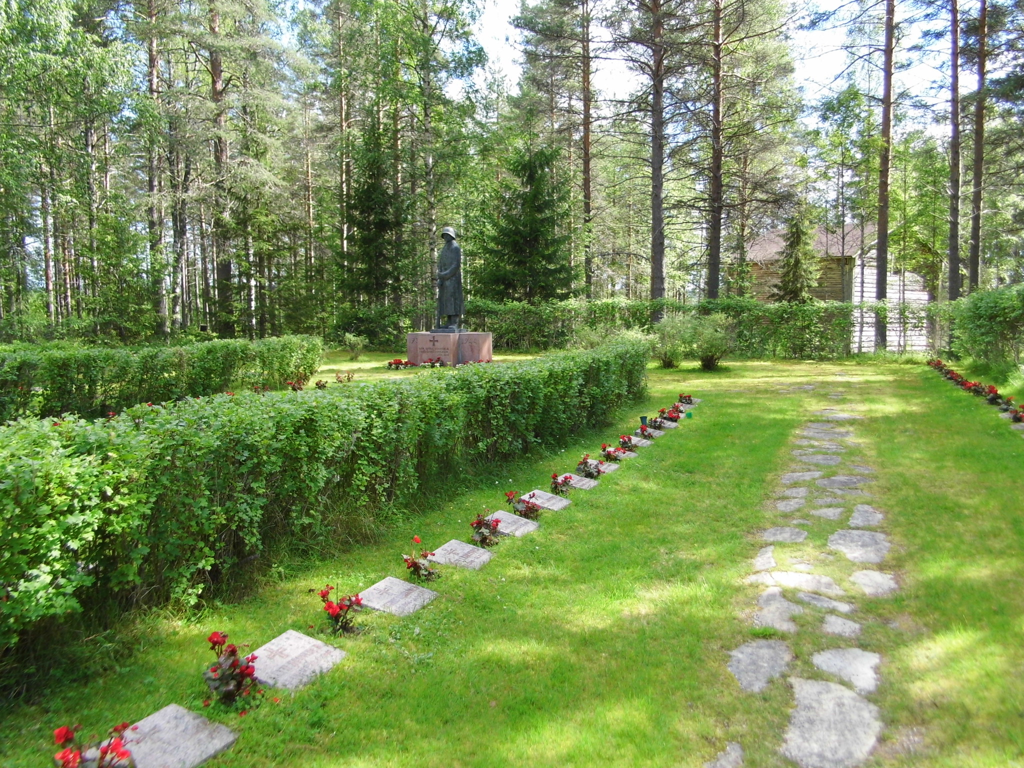 Military cemetary at church in Puolanka, Finland